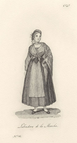 traditional woman of La Mancha